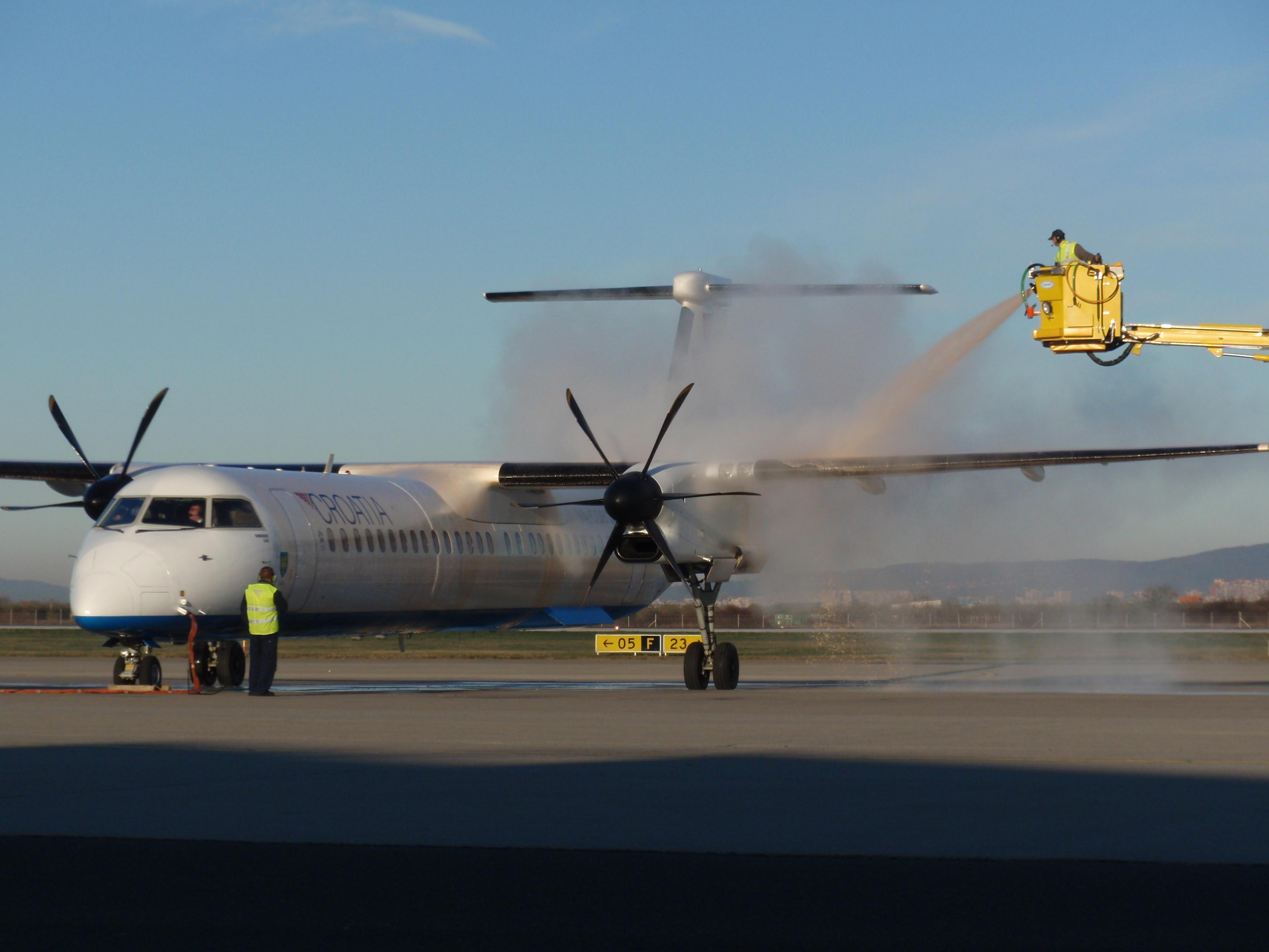 Frost removal, one-step De/Anti icing with Type I fluid.